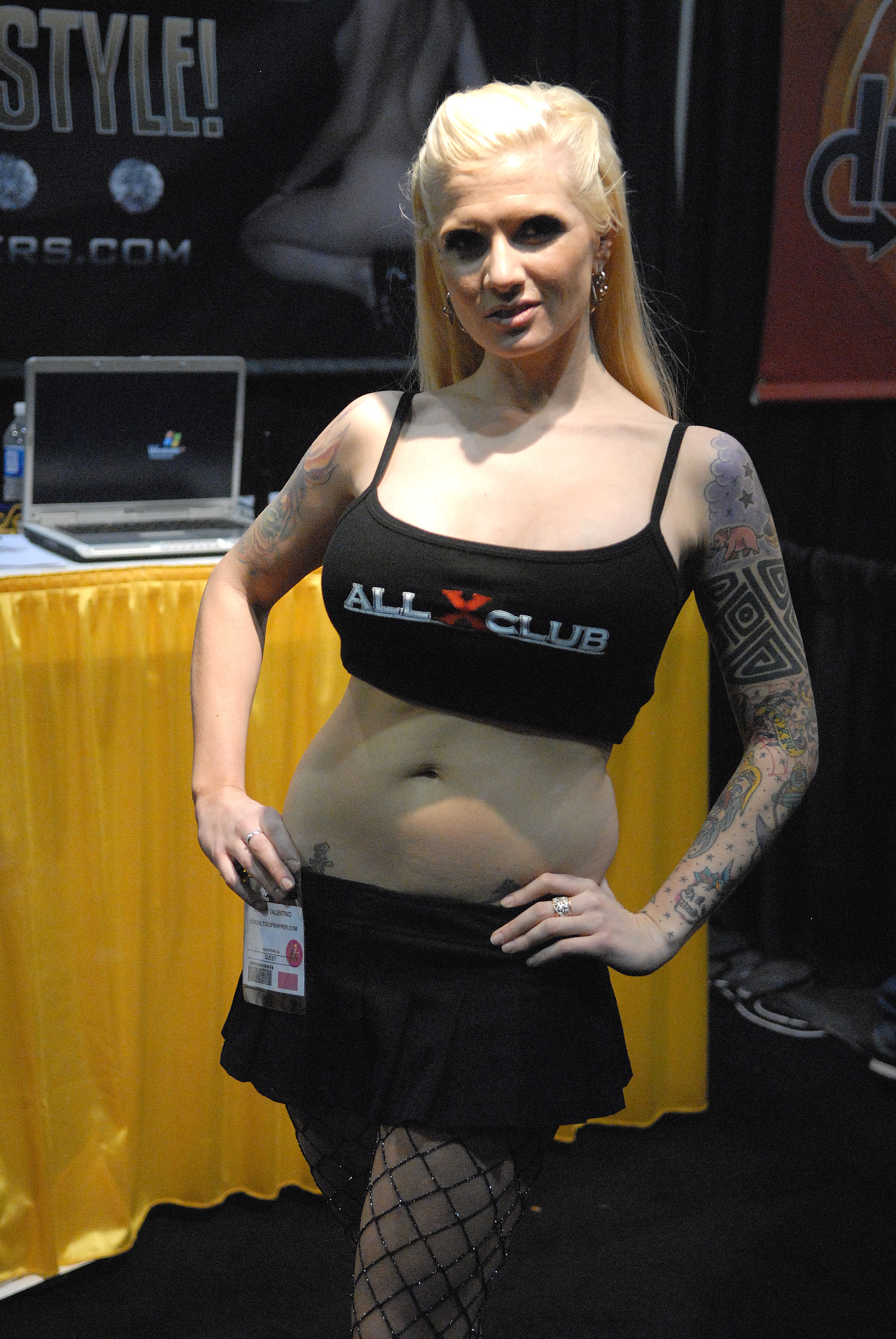 Monroe Valentino at AVN Adult Entertainment Expo 2009.